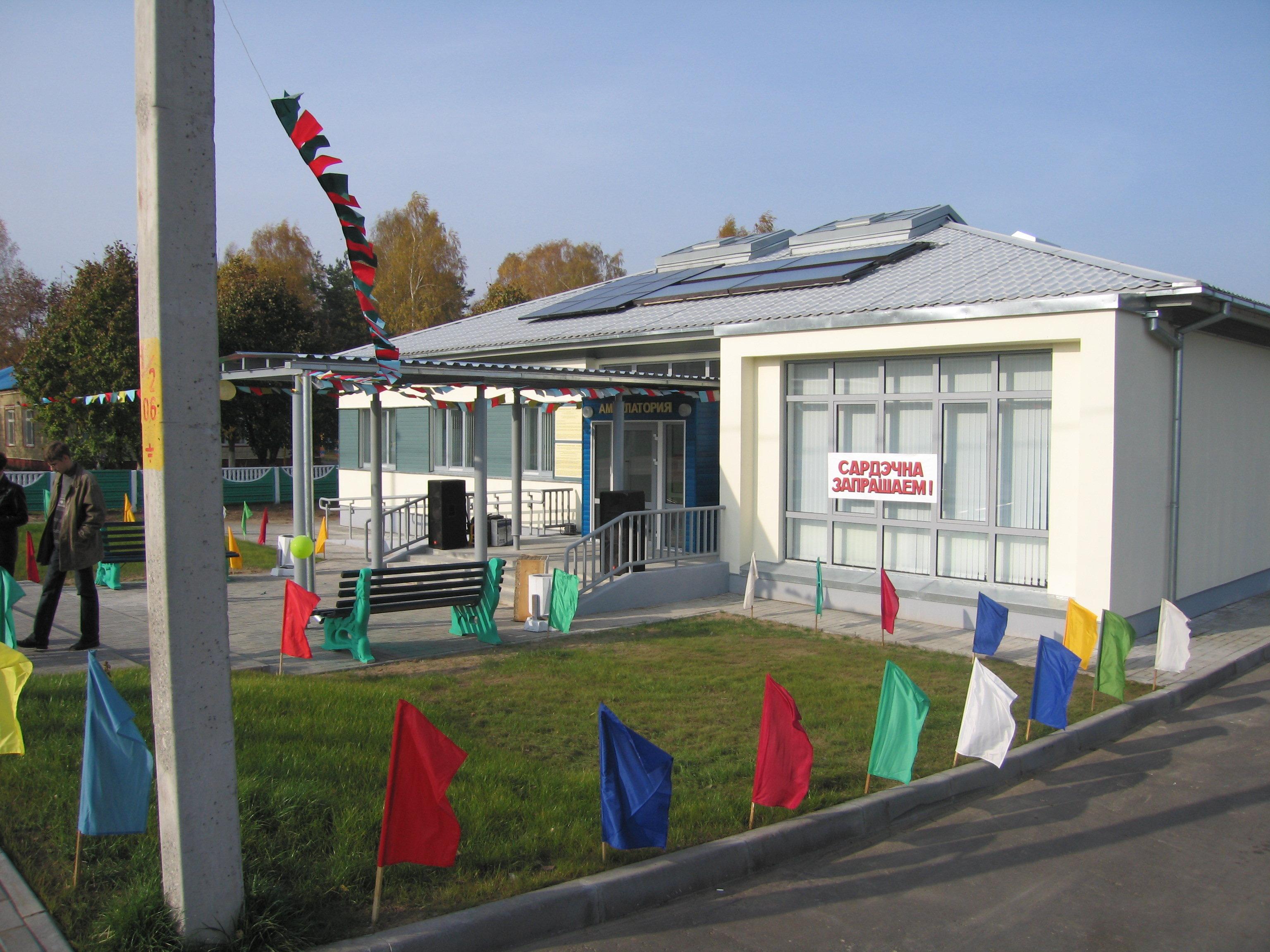 Ambulance center Druschnaja (Belarus) - Dedication October 2006